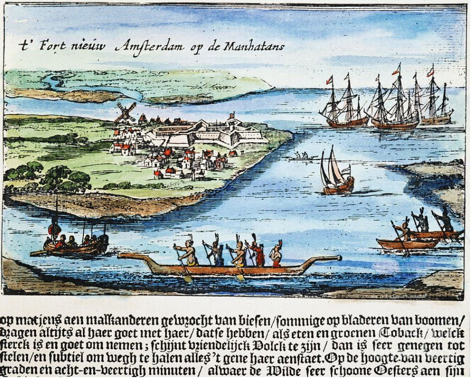 The First View of New York 1626-8. Drawn by Kryn Fredericks, engineer of Fort Amsterdam, and for years hung in Peter Stuyvesant's Council Room in the Stadt House, it was finally sent to Holland, and rescued from oblivion by Adriaen Van der Donck who used it in the first book written on New Amsterdam and published by Joost Hartgers, Amsterdam, in 1651. Known as the "Hartgers View".